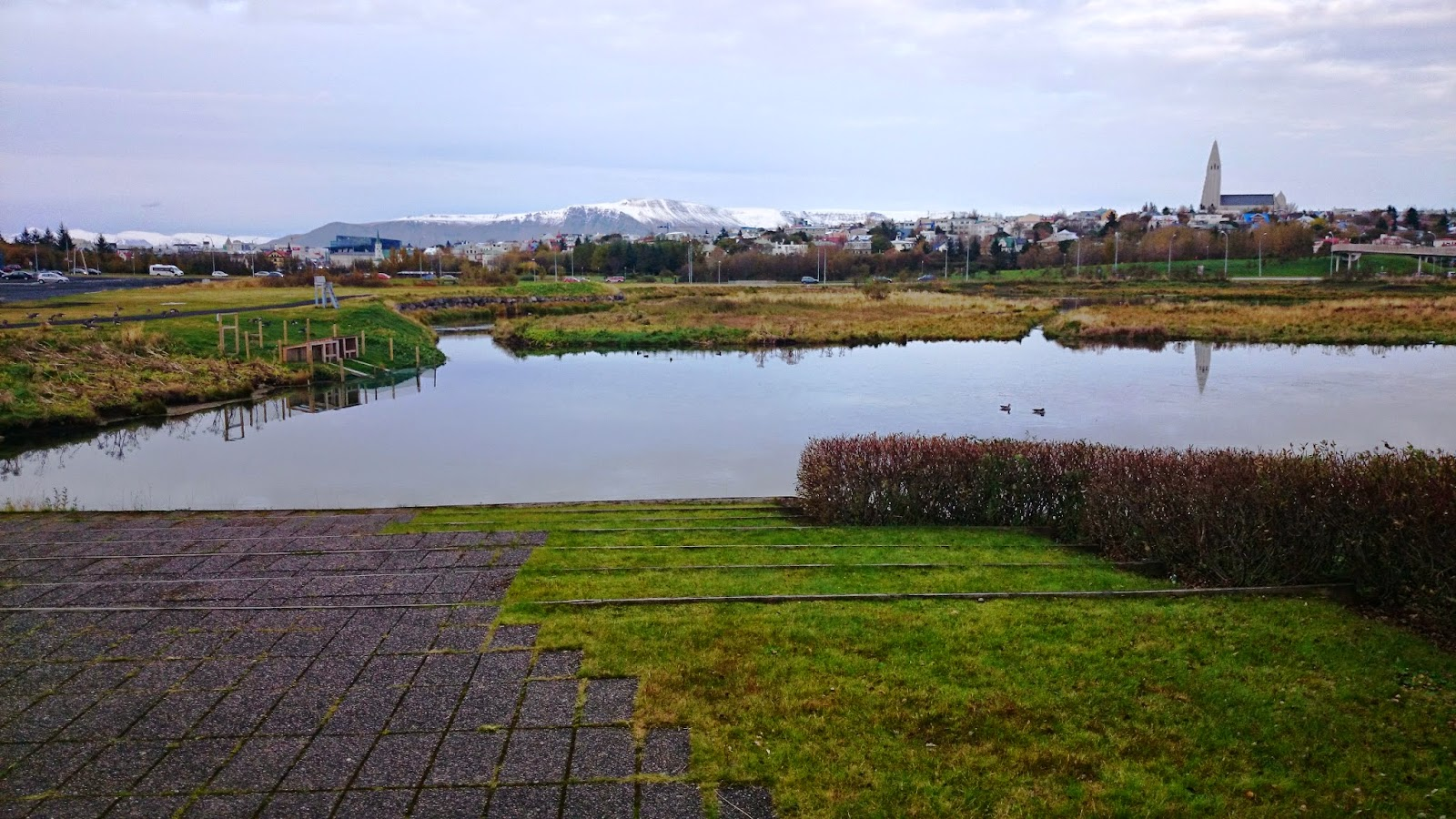 The view towards the downtown of Reykjavik and Esja